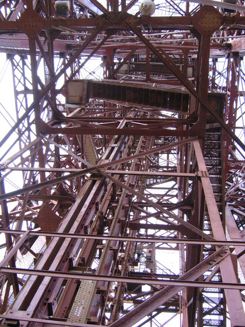 Blackpool Tower A cat's cradle of girders: inside the base of the Tower looking straight up from the roof of the entertainments building. The promenade and sea are off to the left.